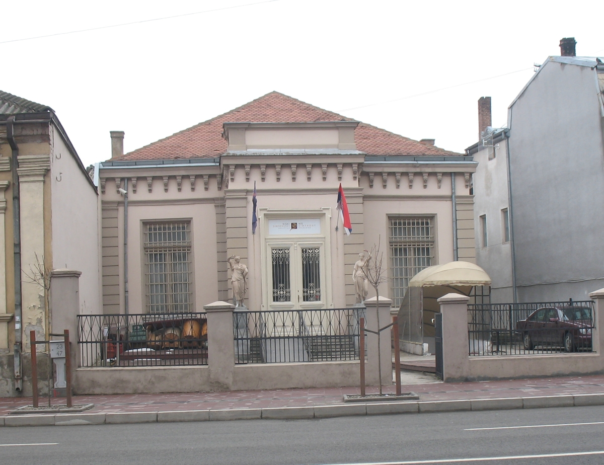 Simphony in Niš, Serbia.